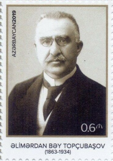 Alimardan Bey Topchubashov.